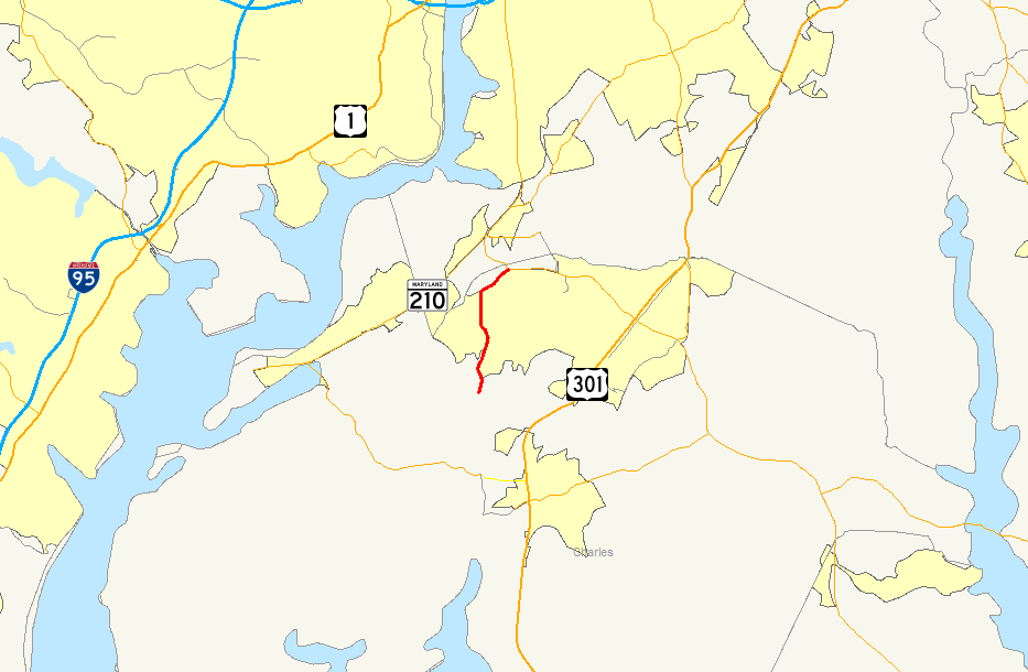 Map of Maryland Route 229